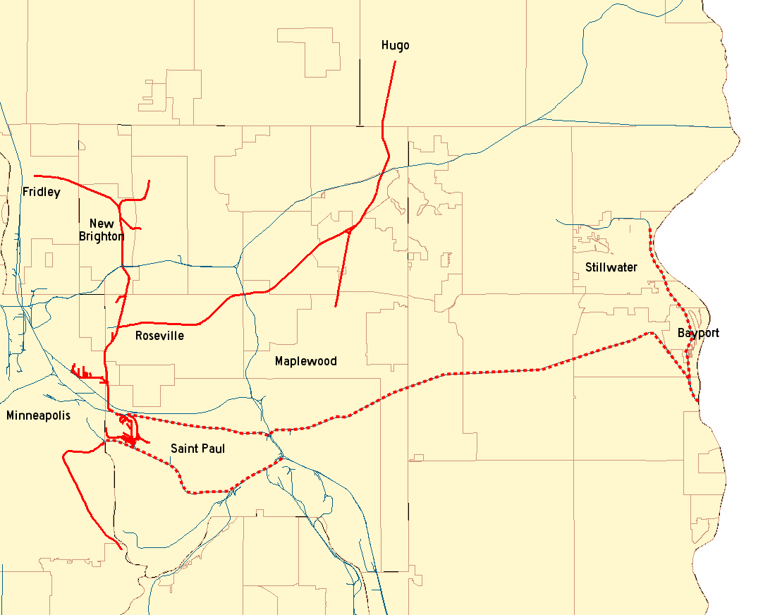 Map of the Minnesota Commercial Railway in the Minneapolis-St. Paul area of Minnesota. Solid lines are MNNR owned; dotted lines are trackage rights. Created with Quantum GIS using data from the MNDOT Railroad basemap. The disclaimer on their site says: The Minnesota Department of Transportation makes no representation or warranties, express or implied, with respect to the reuse of data provided herewith, regardless of its format or the means of its transmission. There is no guarantee or representation to the user as to the accuracy, currency, suitability, or reliability of this data for any purpose. The user accepts the data 'as is', and assumes all risks associated with its use. By accepting this data, the user agrees not to transmit this data or provide access to it or any part of it to another party unless the user shall include with the data a copy of this disclaimer. The Minnesota Department of Transportation assumes no responsibility for actual or consequential damage incurred as a result of any user's reliance on this data.